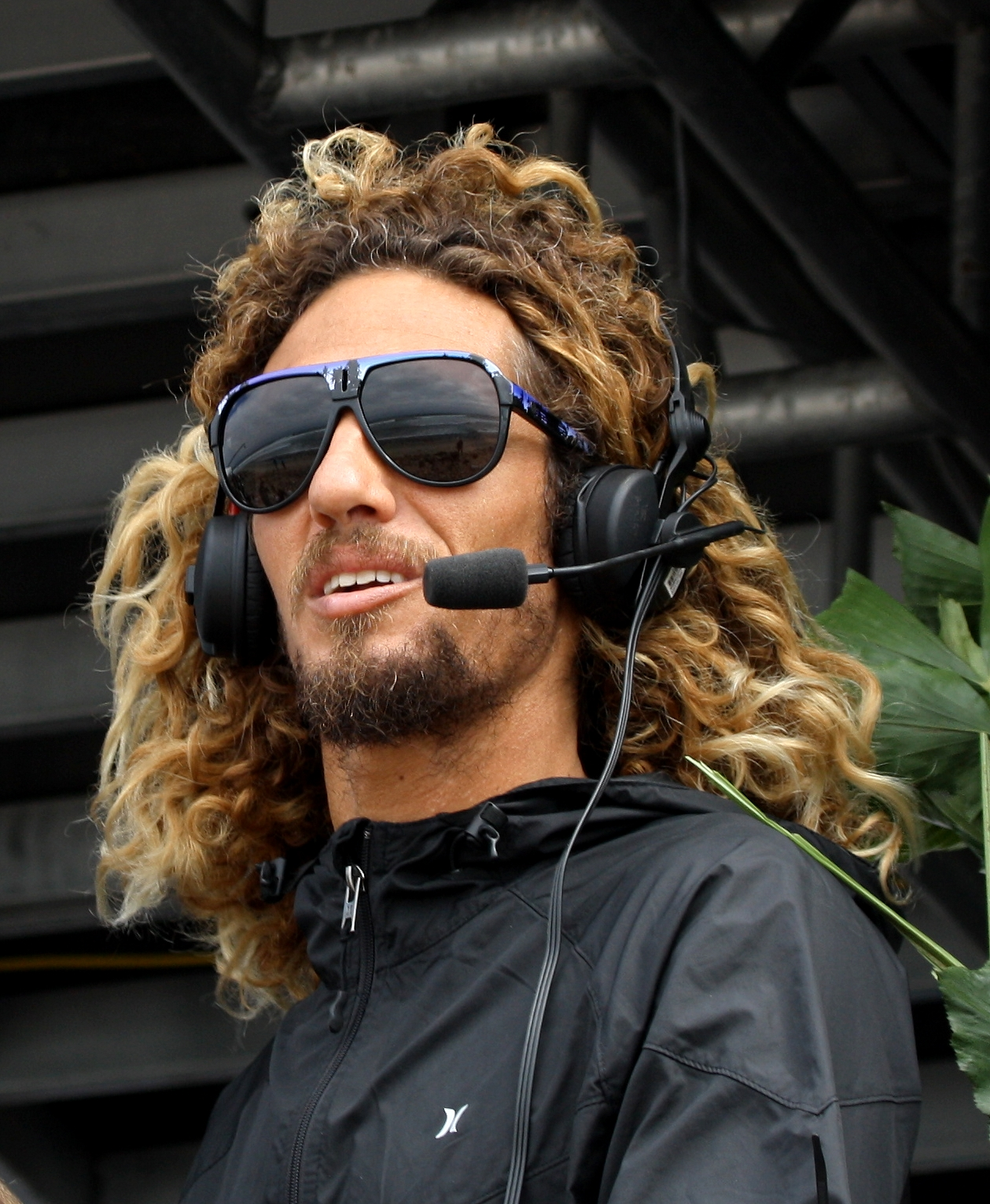 Professional Surfer Rob Machado provides live commentary during the Boost Mobile Pro at Lower Trestles, September of 2009